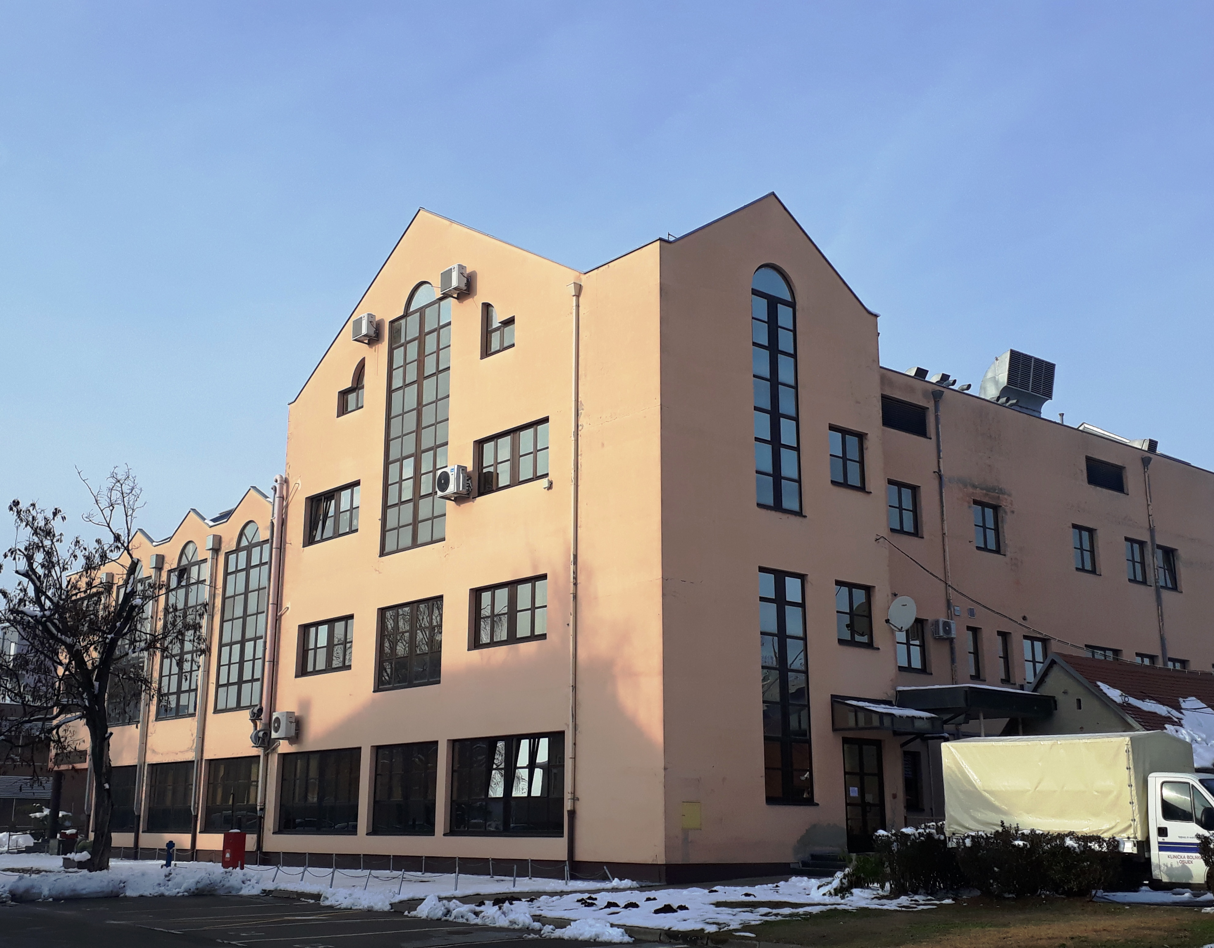 Faculty of Medicine, Strossmayer University of Osijek. Basic biomedical sciences ward.